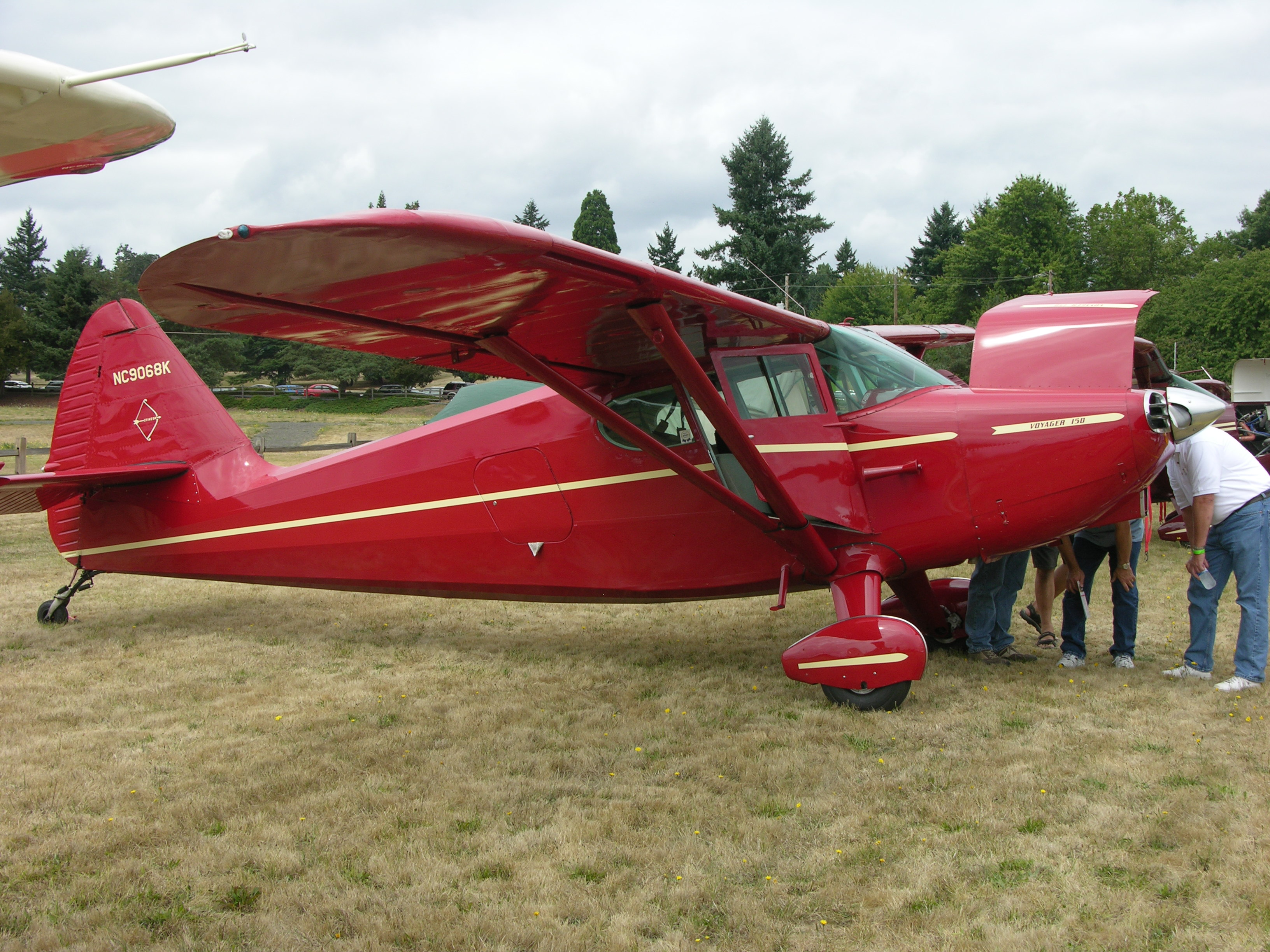 NC9068K a 1947 Stinson 108-1